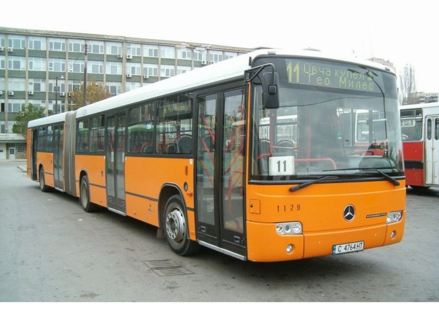 Mercedes-Benz O345 Conecto G bus (#1129) in Sofia, Bulgaria. Built 2003. СКГТ София operator.